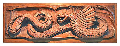 El Cuélebre (giant winged serpent-dragon of the Asturian and Cantabrian mythology). Woodcarving by Eliseo Nicolás Alonso (1955-2012).